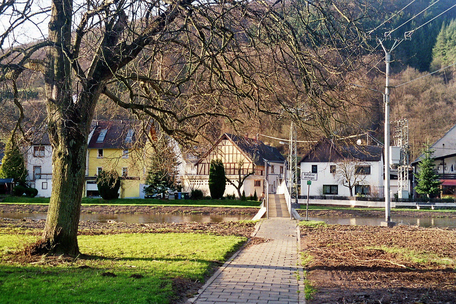 river Wied at Roßbach with pedestrian bridge. In Rhineland-Palatinate